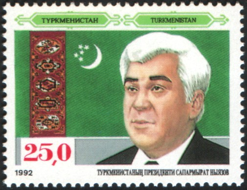 Stamp of Turkmenistan, 1992. Author - Post of Turkmenistan.